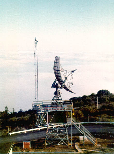 Mill Valley Air Force Station height finder radar in 1973.